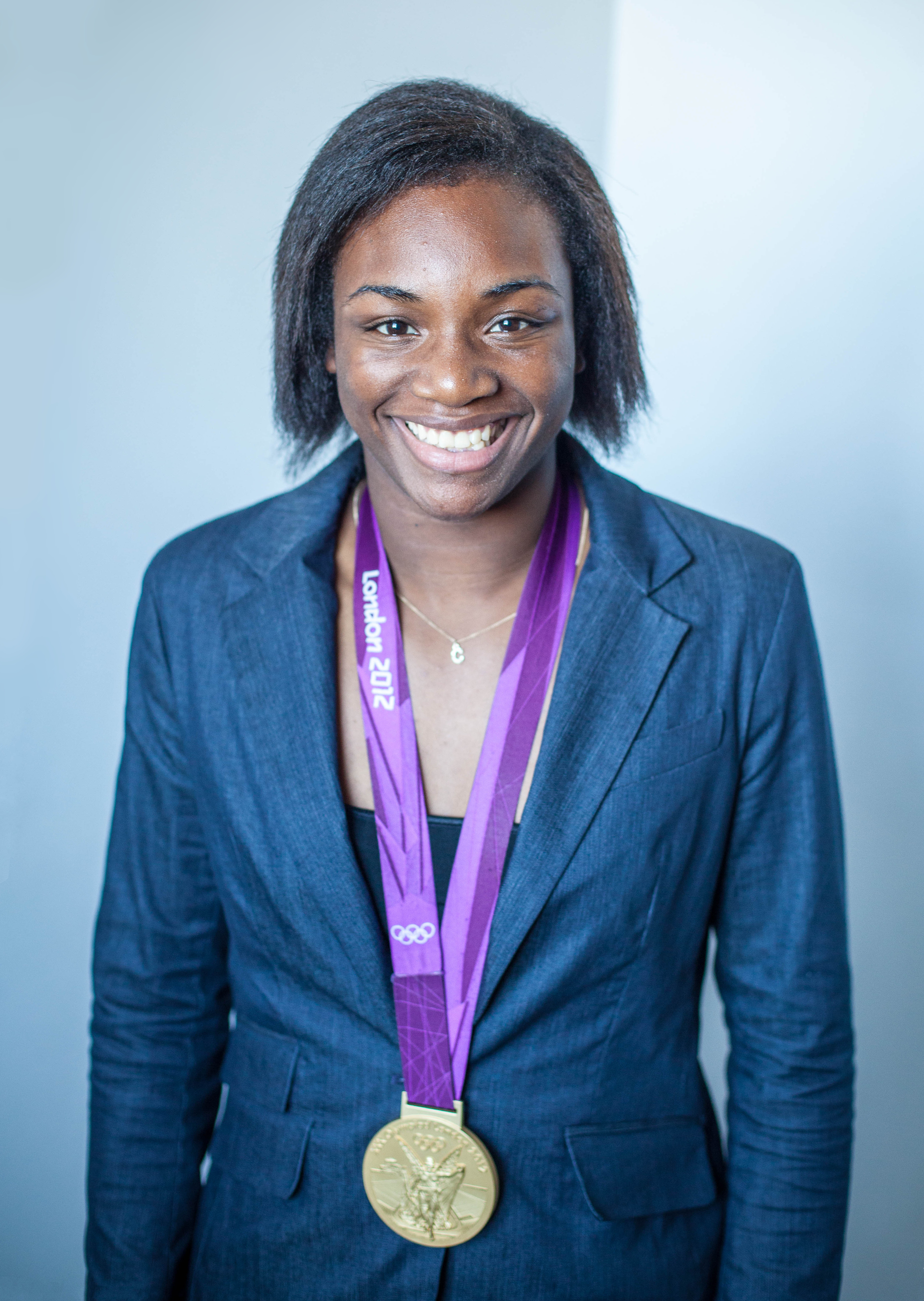 Portrait of Claressa Shields, American Olympic Boxer, at PopTech 2012